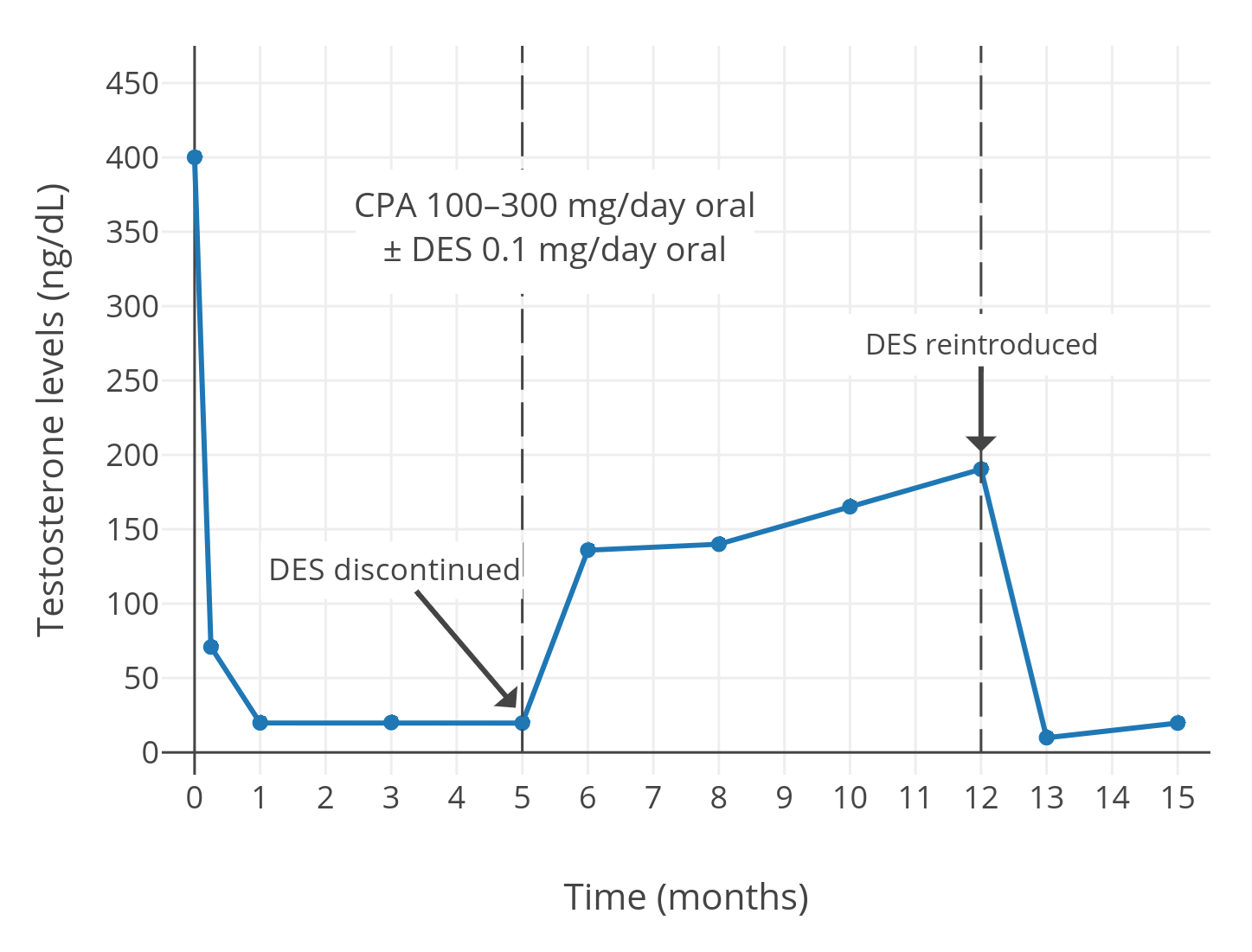 Levels of testosterone (ng/dL) during therapy with 100 to 300 mg/day oral cyproterone acetate (CPA) and low-dose oral estrogen in men with prostate cancer. The estrogen used was 0.1 mg/day diethylstilbestrol (DES), which has been described as an "extremely low" dosage. By itself, 3 mg/day DES is able to consistently suppress testosterone levels into the castrate range in men. DES was discontinued at 5 months and reintroduced at 13 months to assess its contribution to suppression of testosterone levels. Levels of testosterone were decreased by about 95% with the combination and by about 61% with cyproterone acetate only. Source of the values: (December 1988). "The combination of cyproterone acetate and low dose diethylstilbestrol in the treatment of advanced prostatic carcinoma". J. Urol. 140 (6): 1460–5. PMID 2973529. Source for the "extremely low" dosage comment regarding DES: "Steroidal Antiandrogens" in (2009) Hormone Therapy in Breast and Prostate Cancer, Humana Press, pp. 325–346 ISBN: 978-1-60761-471-5.